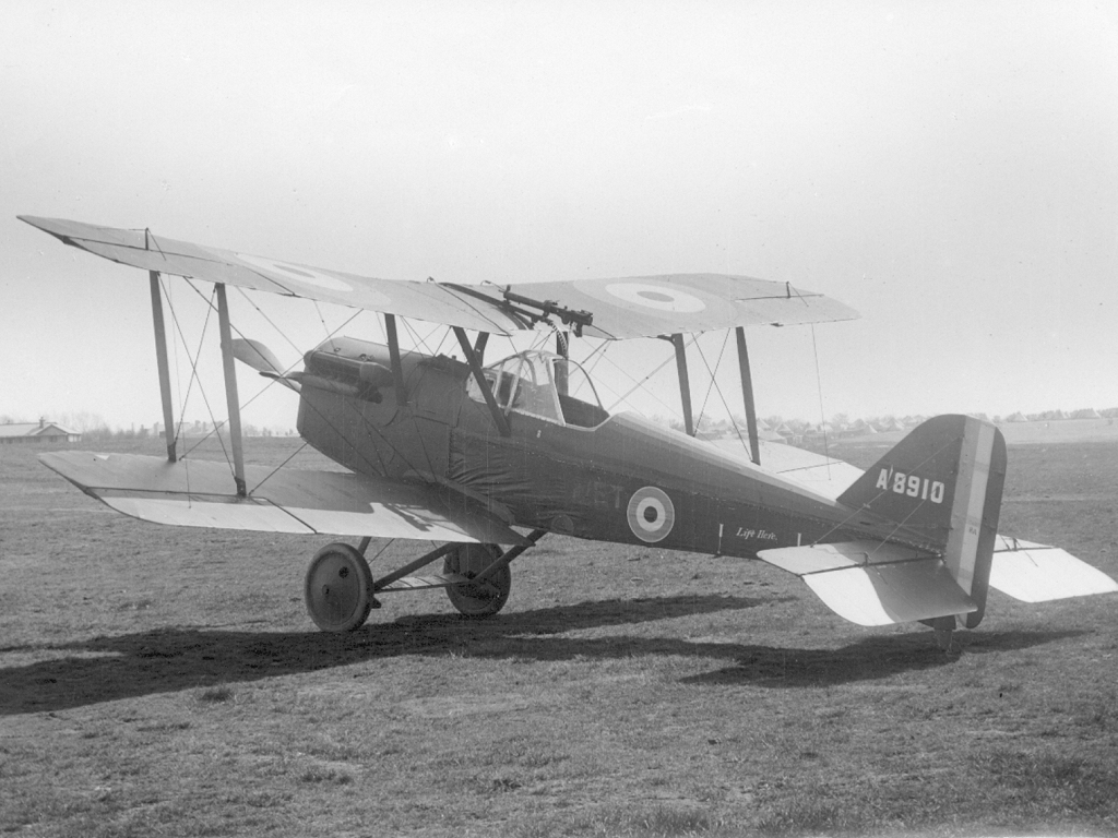 Royal Flying Corps or Royal Air Force SE 5 in 1917-1918 period.